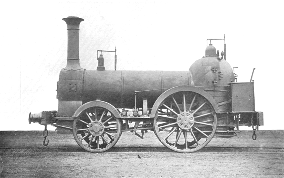 "L&MR Planet class, 1830" (original title in the book) Actually appears to be a London & Birmingham Railway 2-2-0 Bury locomotive.